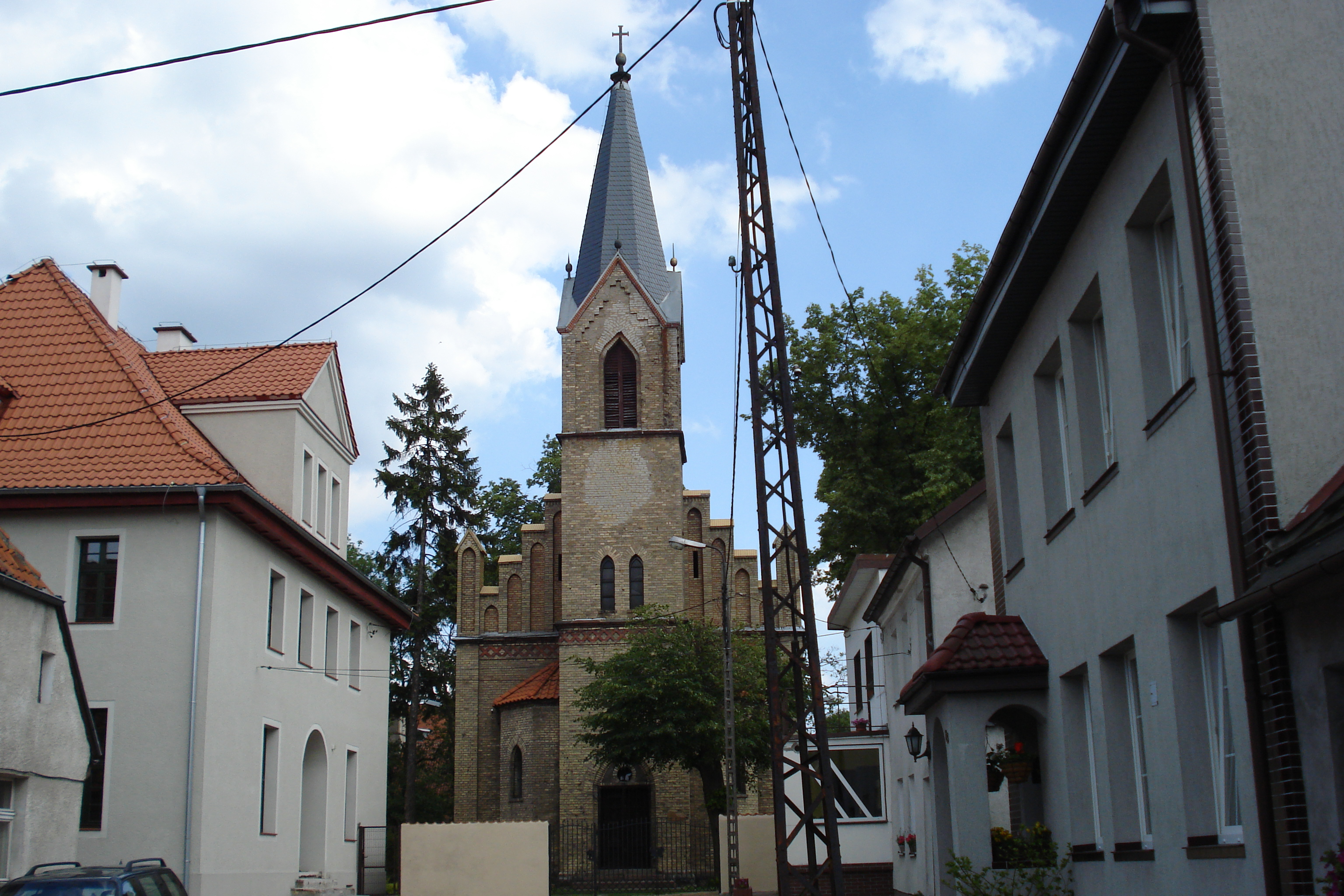 Kościół ewangelicki w Barczewie